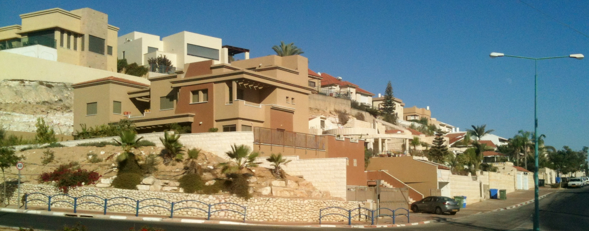 Ramot Beersheba